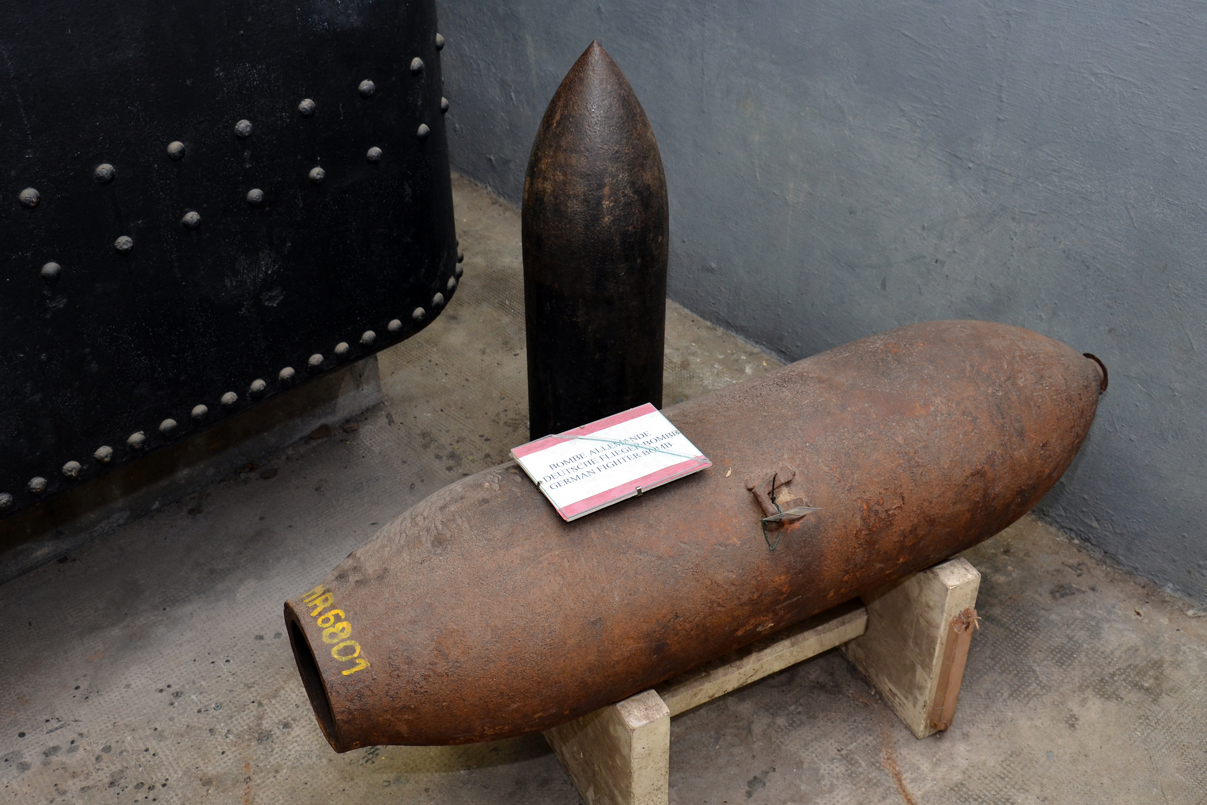 WW II Historical Museum Hatten, (Musée de l'Abris Hatten)